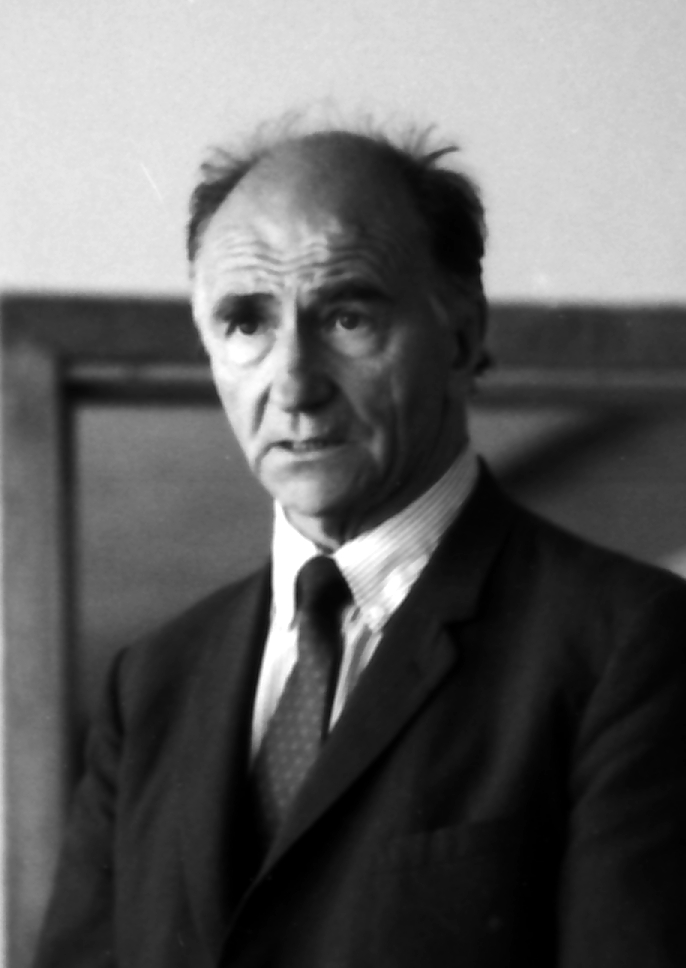 Albertas Laurinčiukas, writer of Lithuania